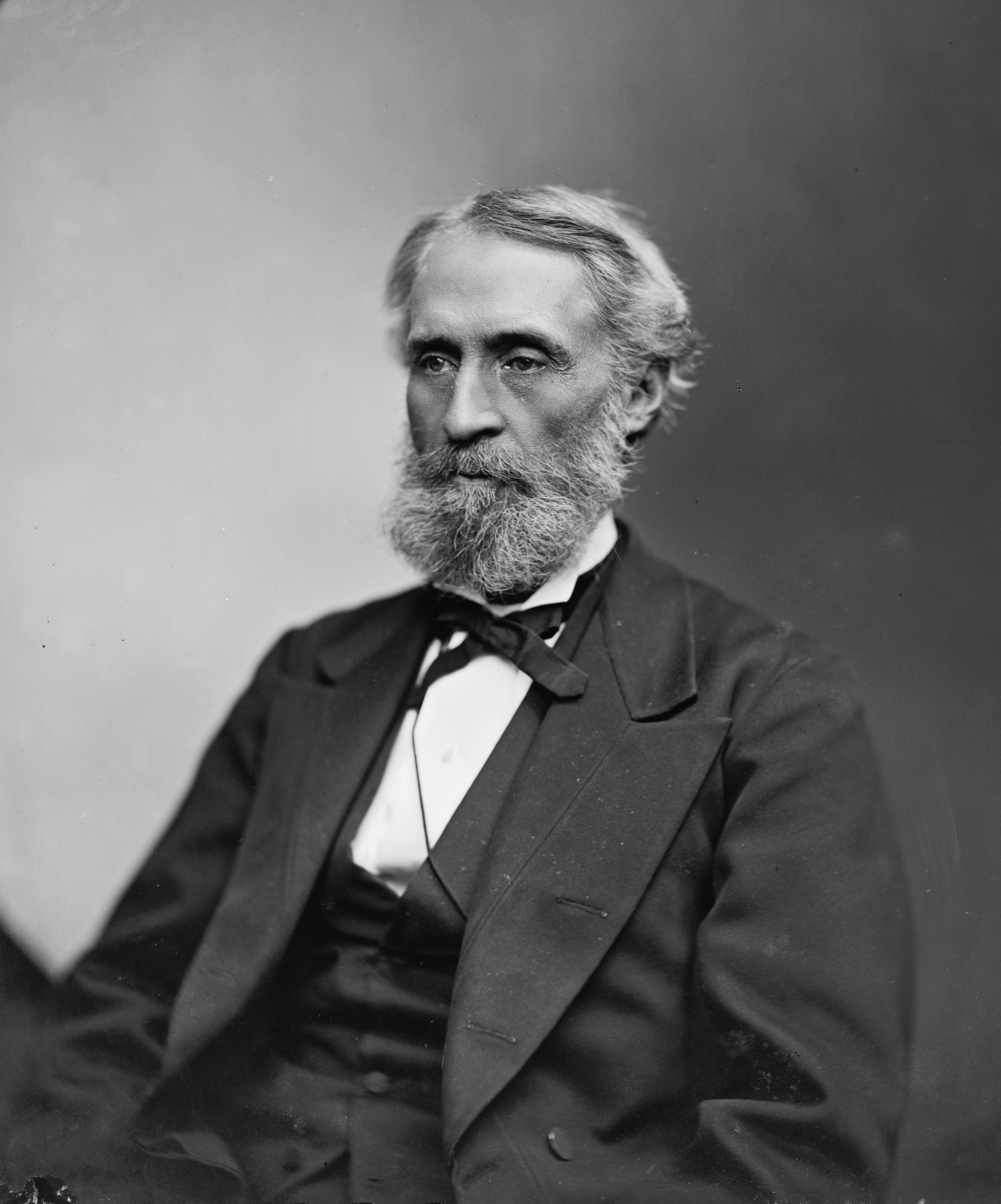 Thomas Lanier Clingman. Library of Congress description: "Clingman, Hon. Thomas Lanier of N.C."